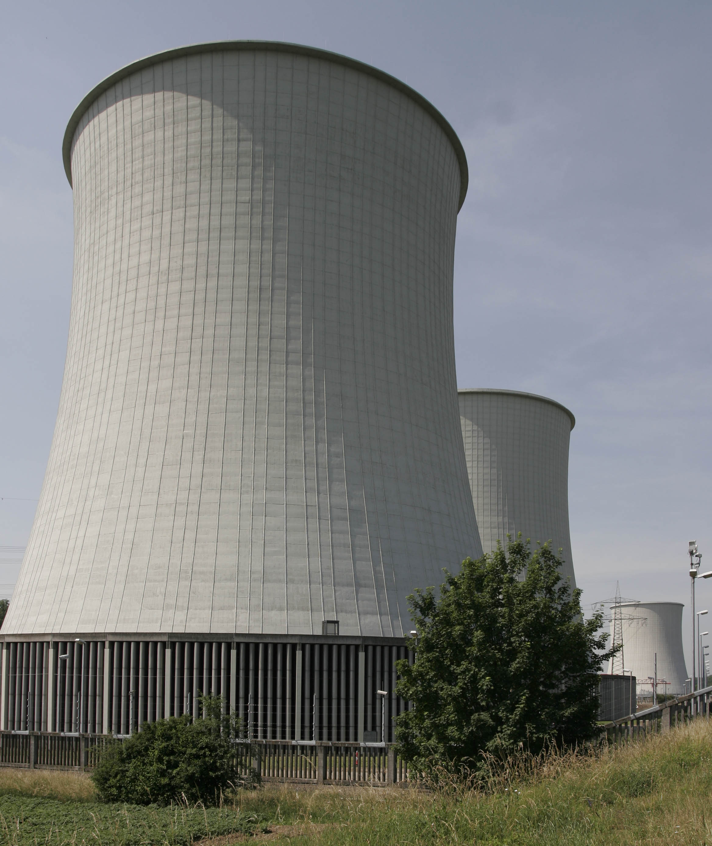 Biblis Nuclear Power Plant (Germany), cooling towers from block A seen from North-West.